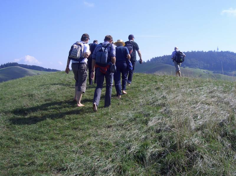 Barefoot hiking on the Badberg Trail in the Kaiserstuhl, Germany